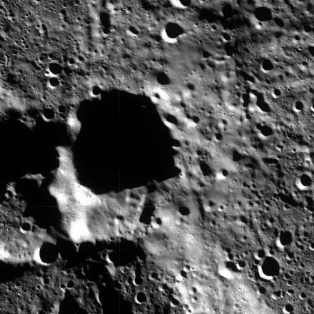 LRO-WAC. Houssay at center in shadows, Nansen floor at right